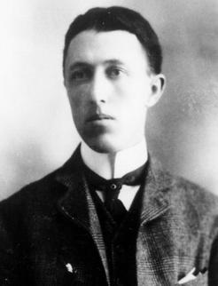 Depicted person: William Antrobus Griesbach – Canadian politician